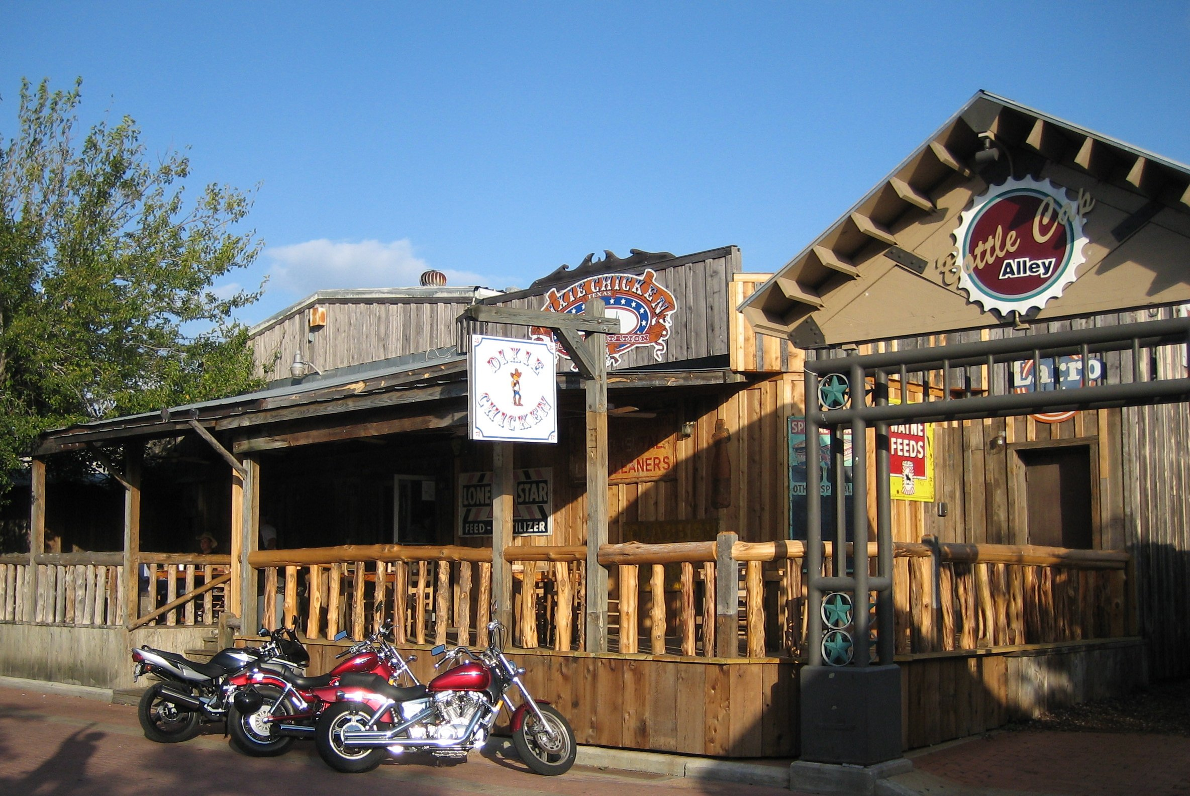 Dixie chicken in College Station